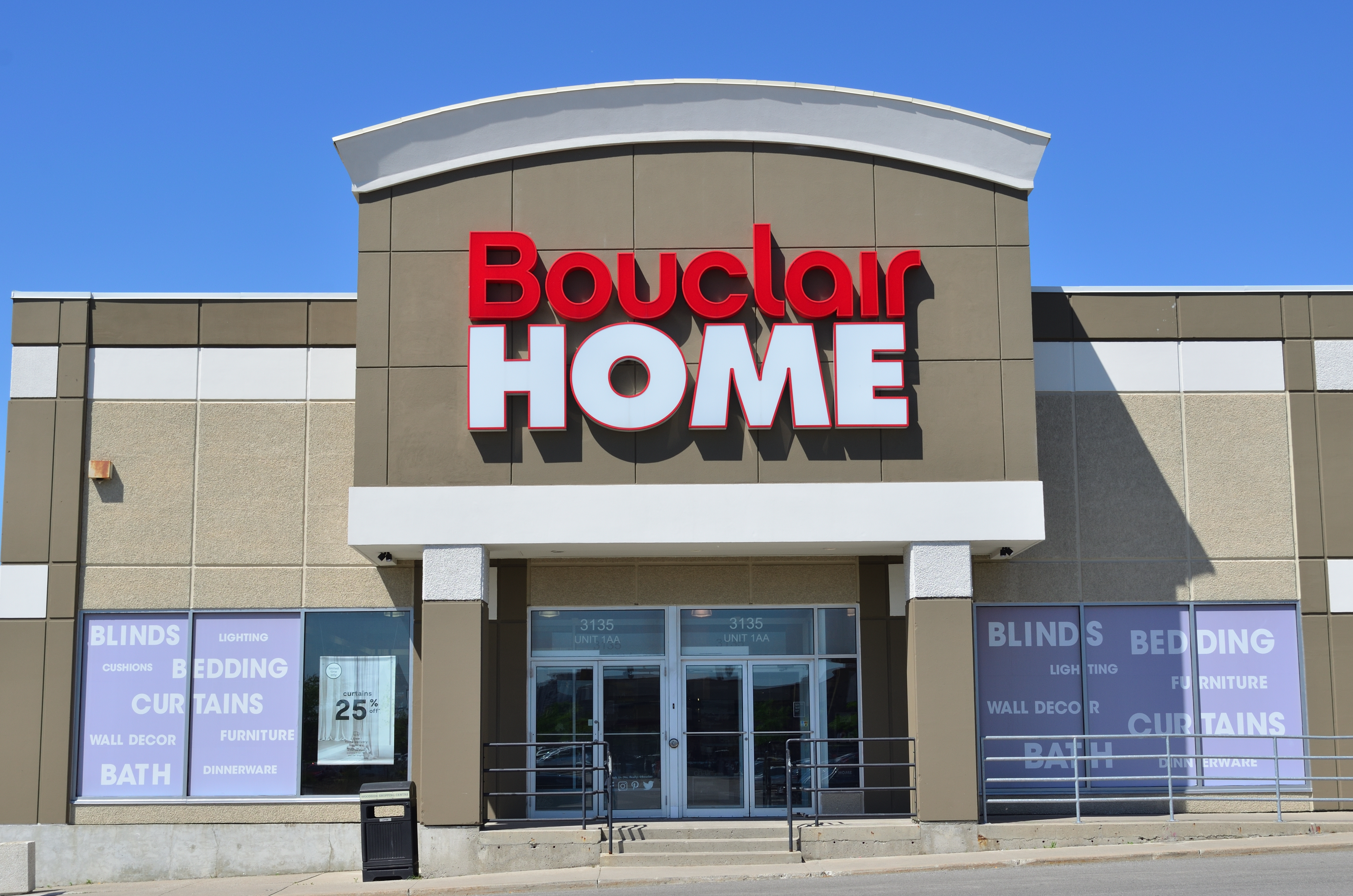 Bouclair Home in Markham